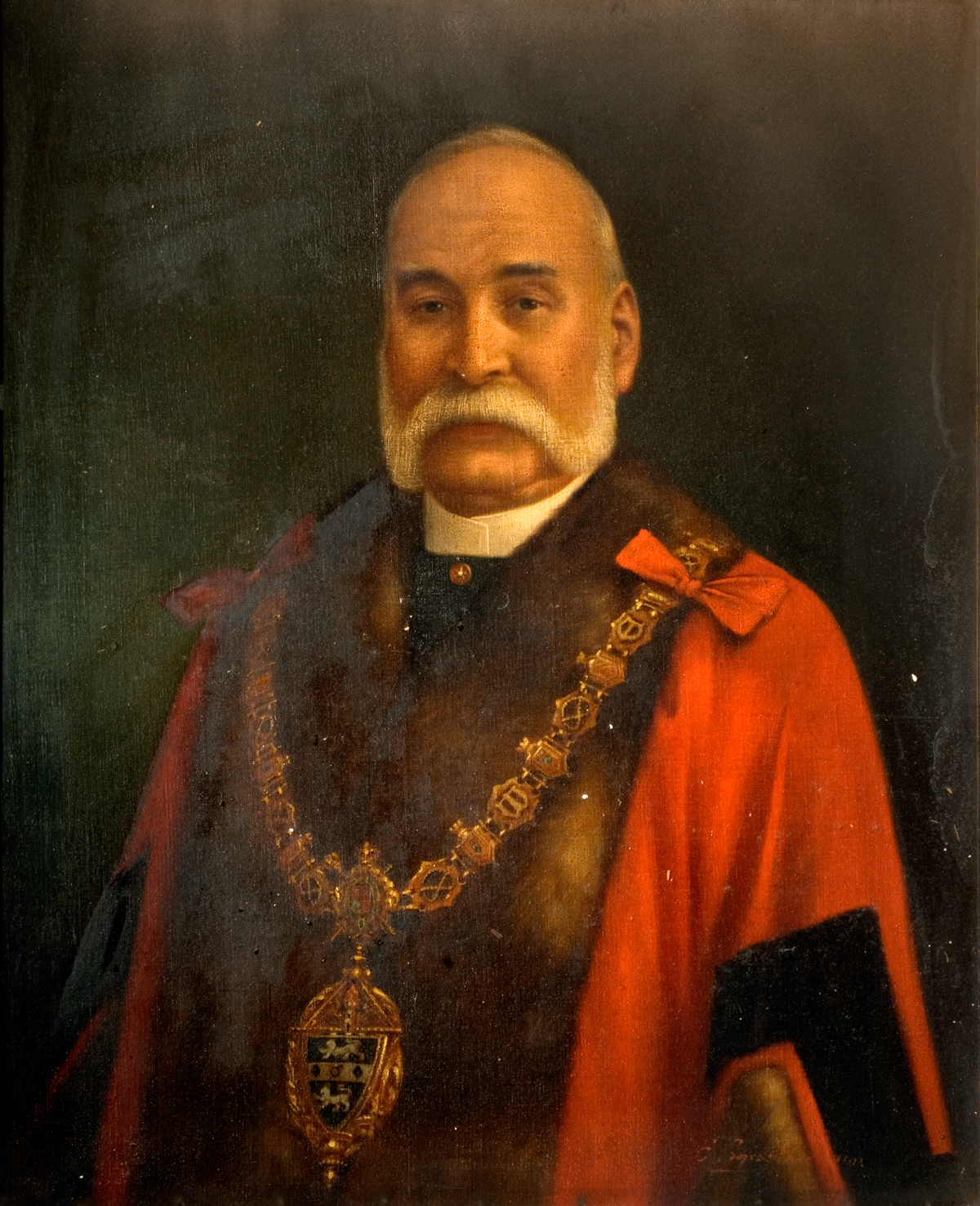 Portrait of Alderman John Ashley Kilvert JP, Mayor of Wednesbury, England.